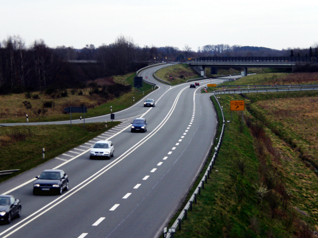 This image shows the federal highway 4 near Uelzen, Germany (Uhlenring).